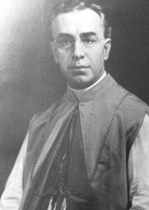 Picture of Bishop Joseph M Koudelka